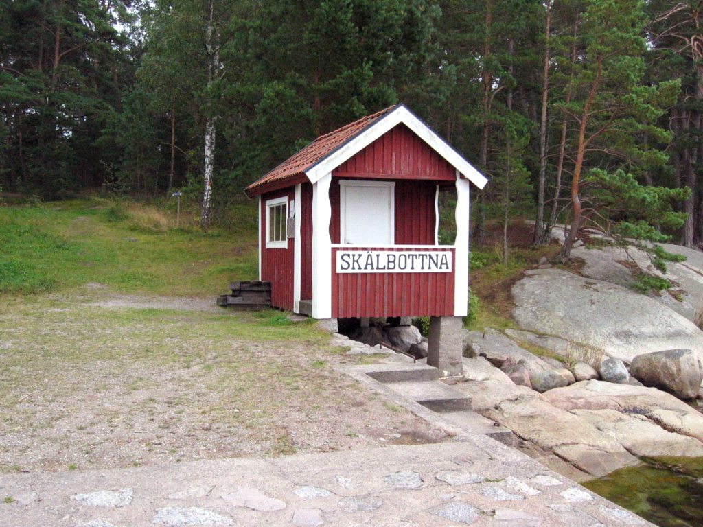 The steamboat jetty at Själbottna